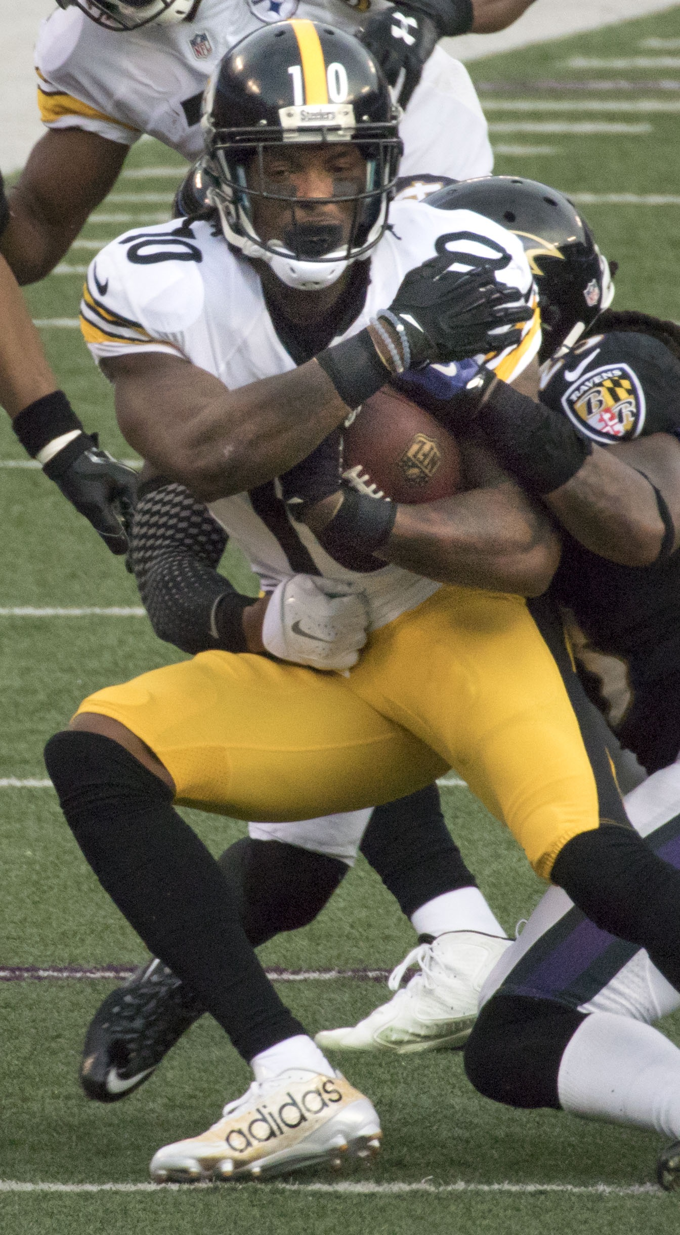 Steelers at Ravens 12/27/15